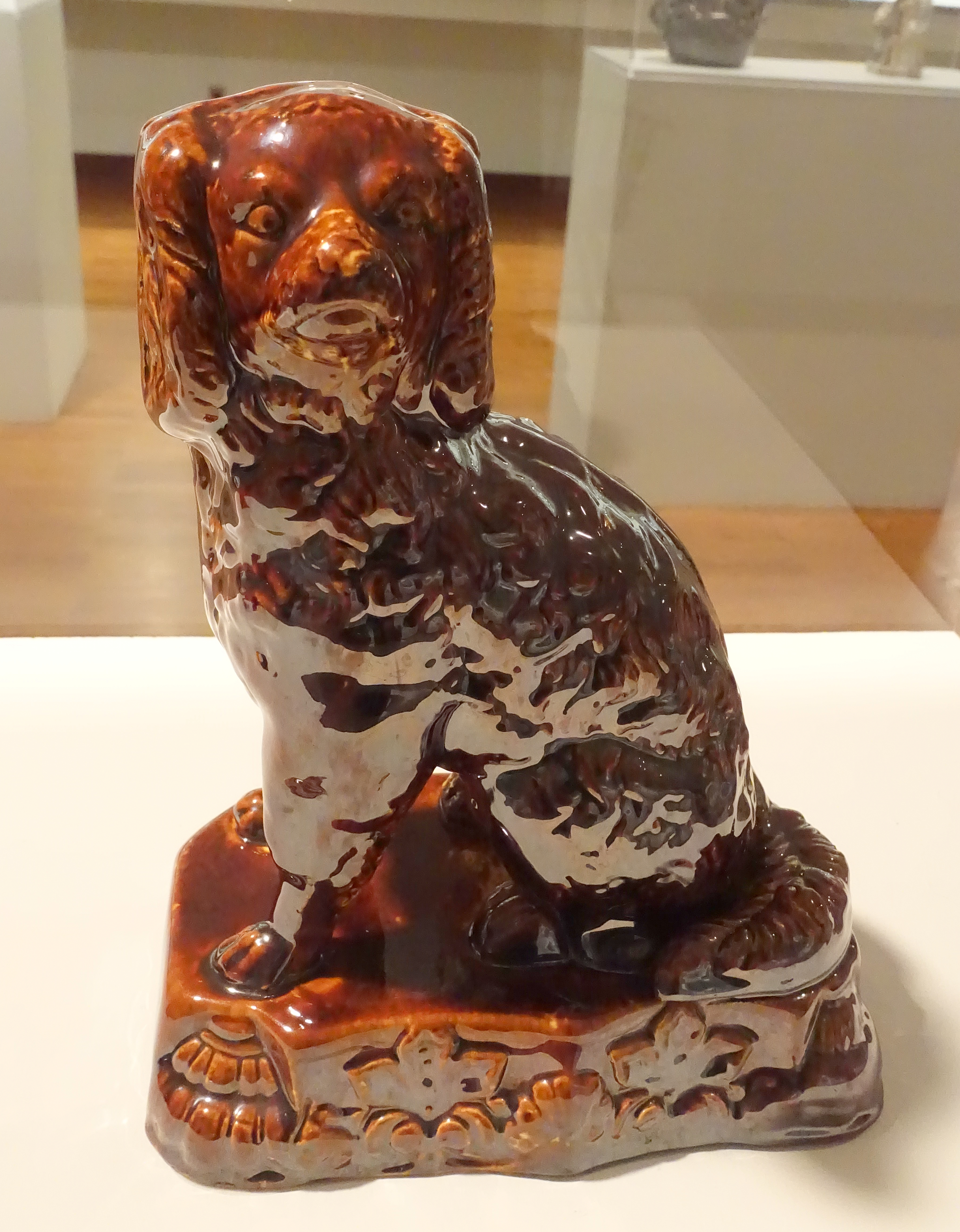 Exhibit in the Krannert Art Museum, University of Illinois at Urbana-Champaign - Urbana-Champaign, Illinois, USA. This work is old enough so that it is in the public domain.